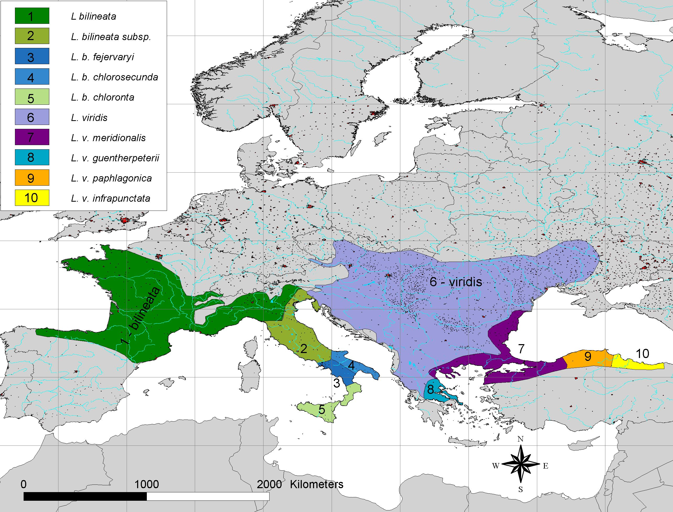 Lacerta viridis/bilineata and Adriatic lineage clades after Marzahn et al 2016 (Phylogeography of the Lacerta viridis complex: mitochondrial and nuclear markers provide taxonomic insights, 2016. In: Journal of Zoologica Systematics and Evolutional Research, 54(2): 185-205)